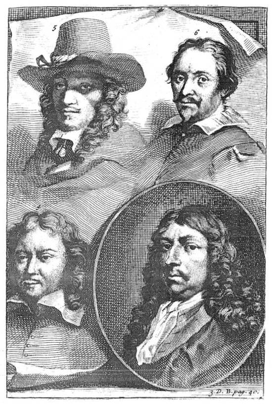 Plate B p40 3 Gerard ter Burg, 4 Gabriel Mitzu, 5 Karel de Jardyn, 6 Gillis de Hondekoeter. Illustration from Part 3 of Arnold Houbraken's Schouburg from 1721